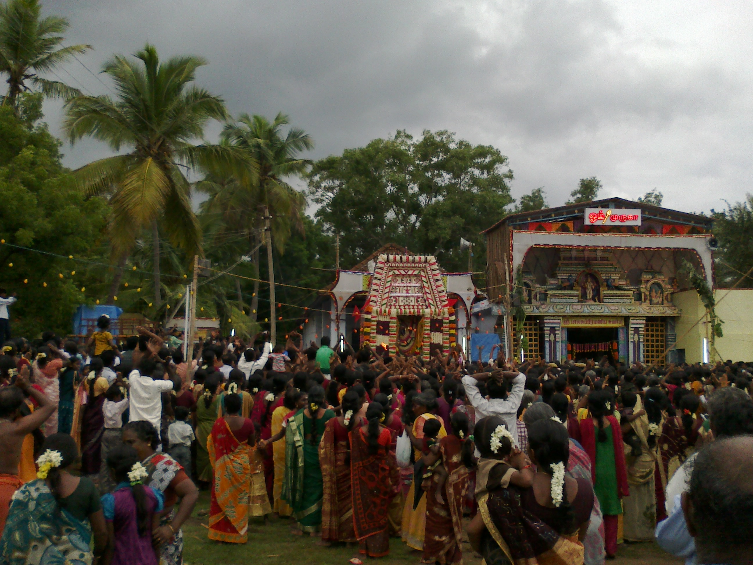 This picture was captured by me during Skanda sasti festival at ayikudi..